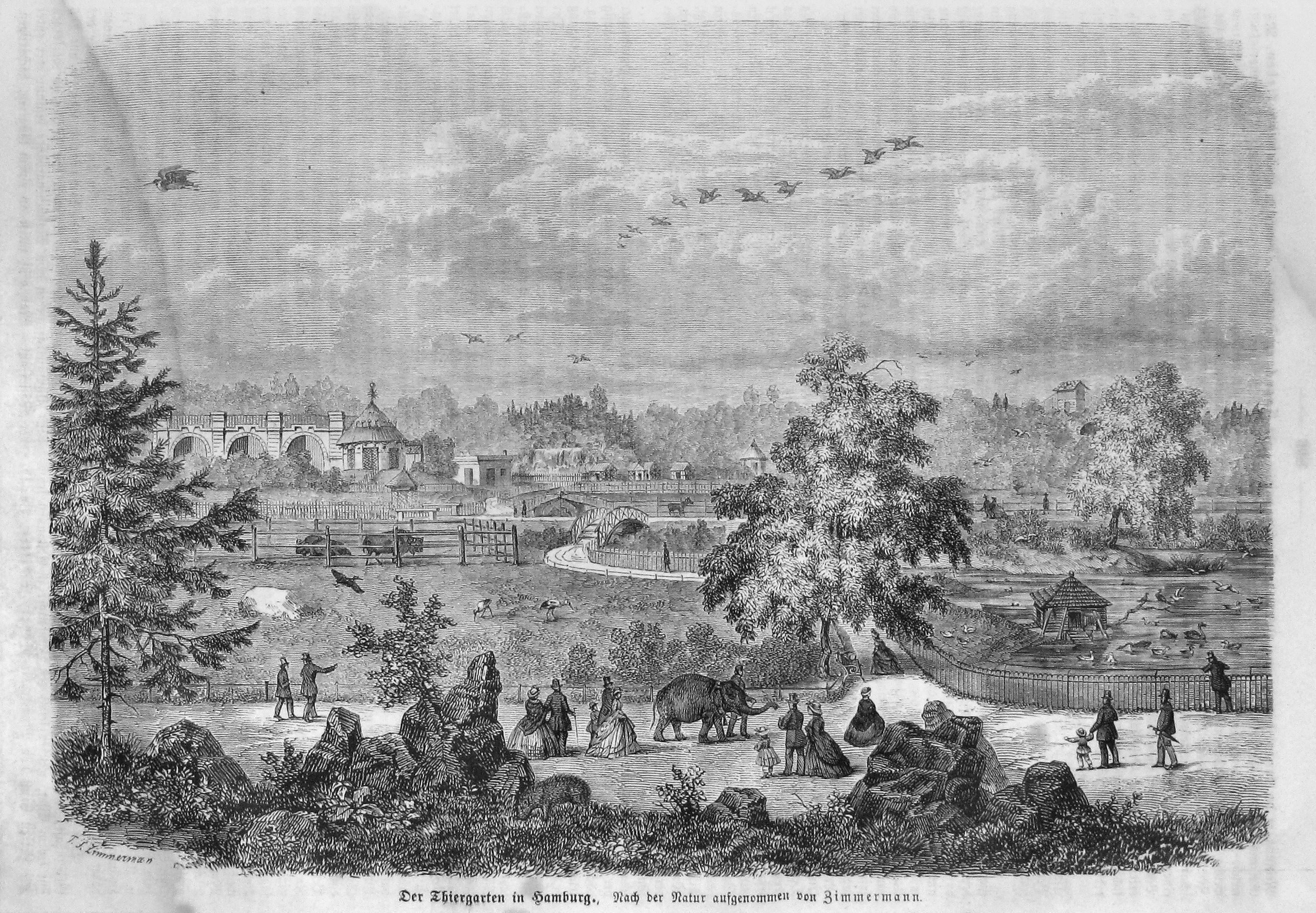 caption: "Der Thiergarten in Hamburg. Nach der Natur aufgenommen von Zimmermann."